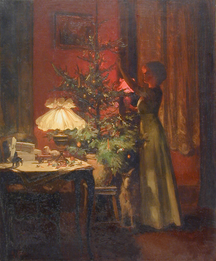 A young woman decorates the Christmas tree holding a lamp in her right hand (this painting is probably the one presented at the Paris's Salon in 1898 under the title "Noël"Christmas No. 1725)